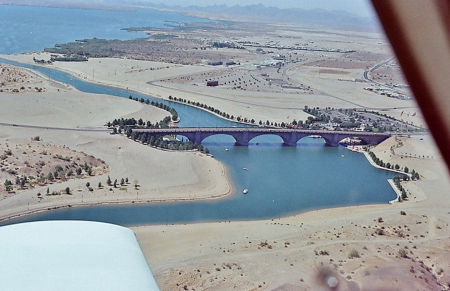 London Bridge Lake Havasu, aerial view 22.7.1973